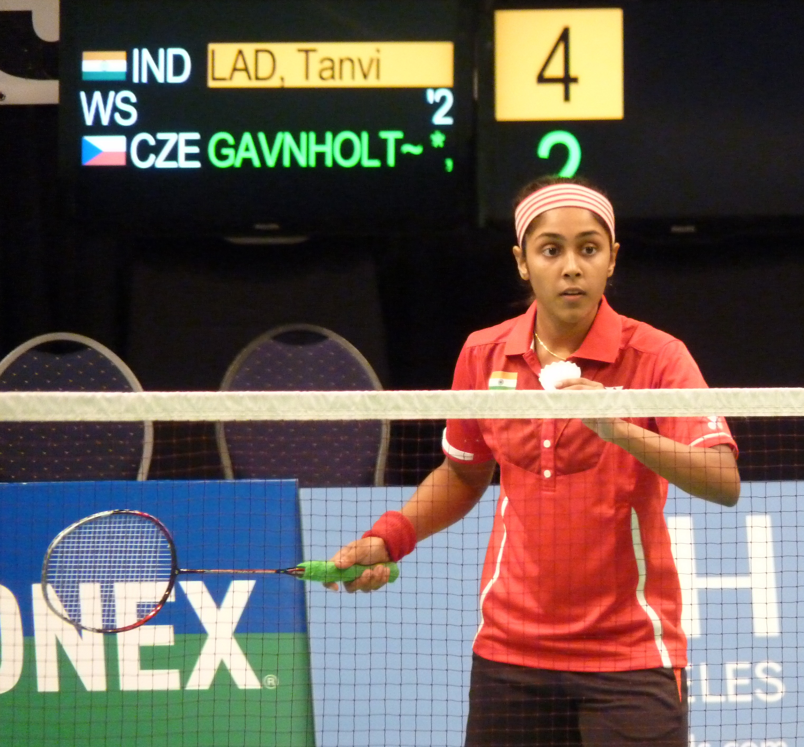 Tanvi Lad (INDIA)